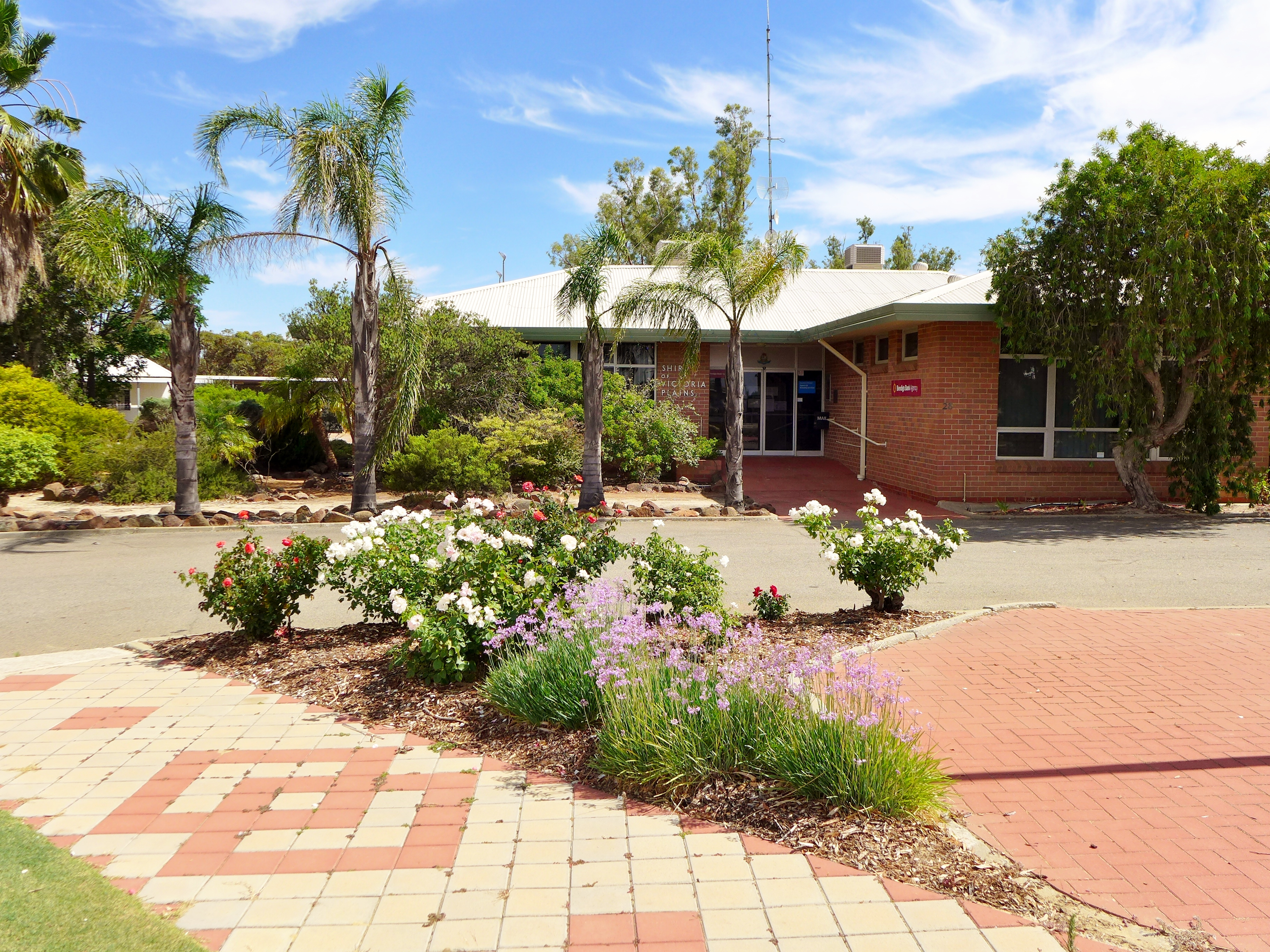 View of the shire offices of the Shire of Victoria Plains, 28 Cavell Street, Calingiri, Western Australia.